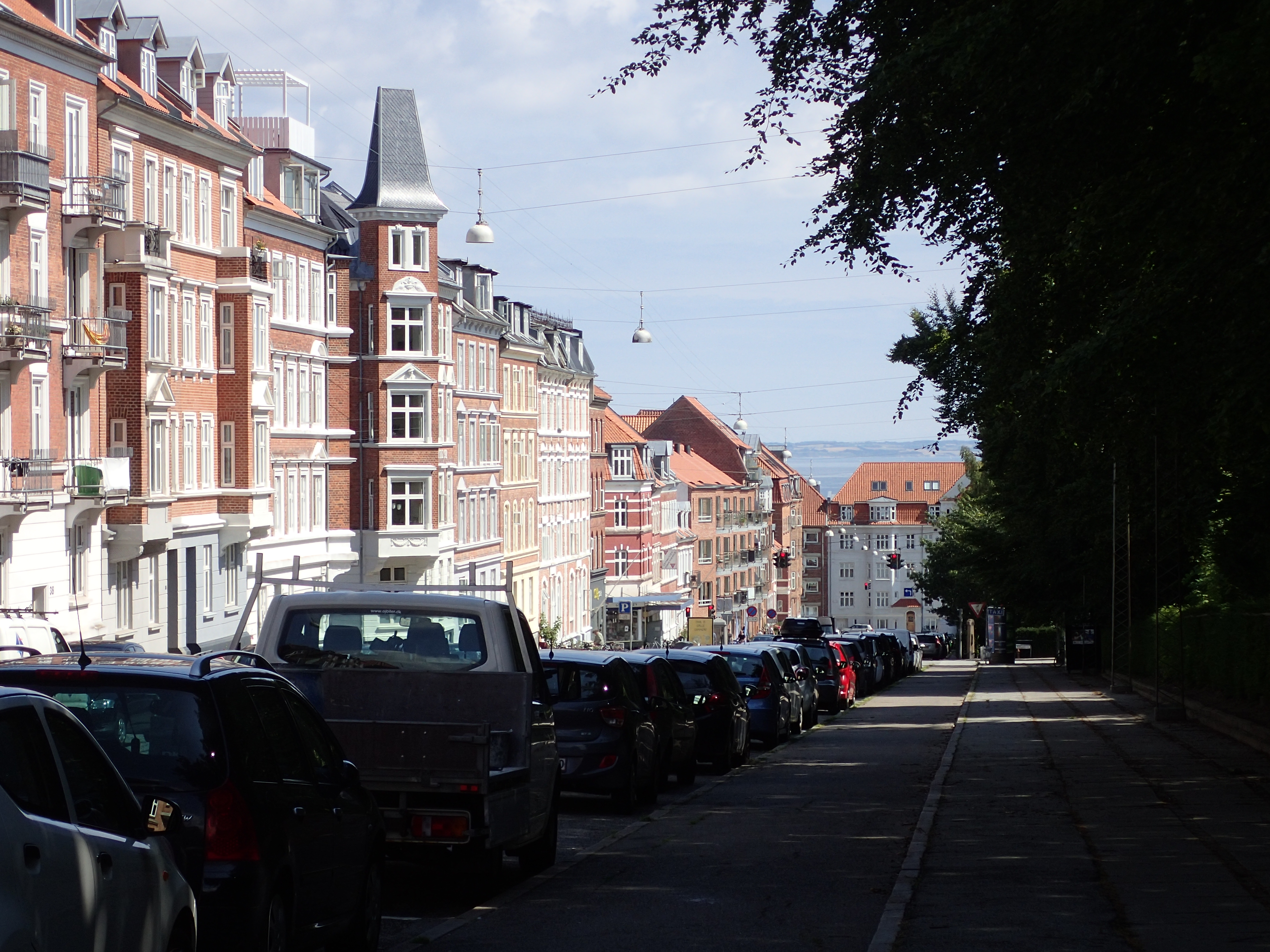 Trøjborgvej. This steep road provides a great view across the Bay of Aarhus.